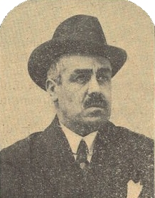 Photograph of portuguese journalist Avelino de Almeida. This image was published in the Gazeta dos Caminhos de Ferro magazine No. 1072, of 16th August 1932, and scanned by the Hemeroteca Municipal de Lisboa.